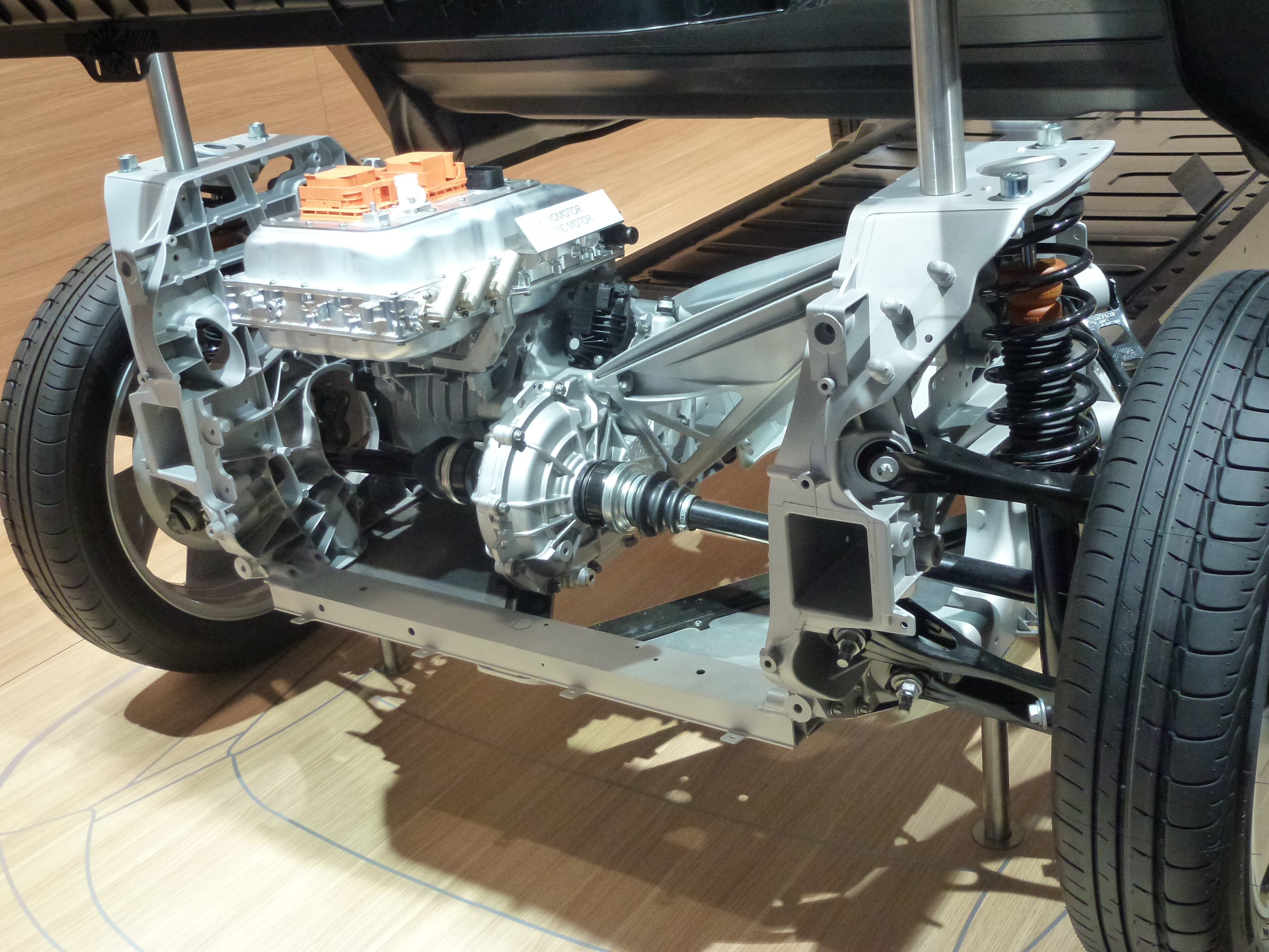 BMW i3 Car